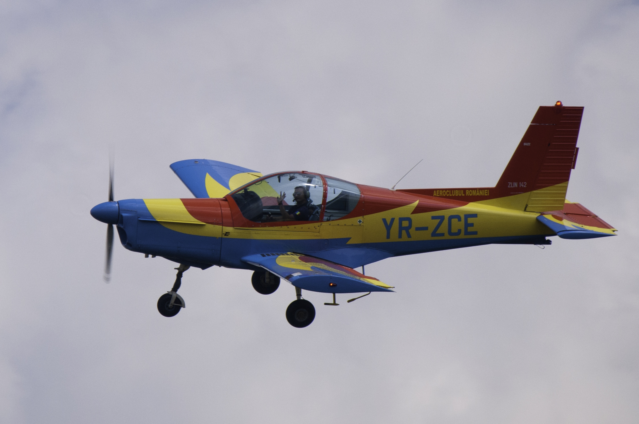 A Zlin 142 airplane of the Romanian Air Club at the Strejnic airshow, May 2011